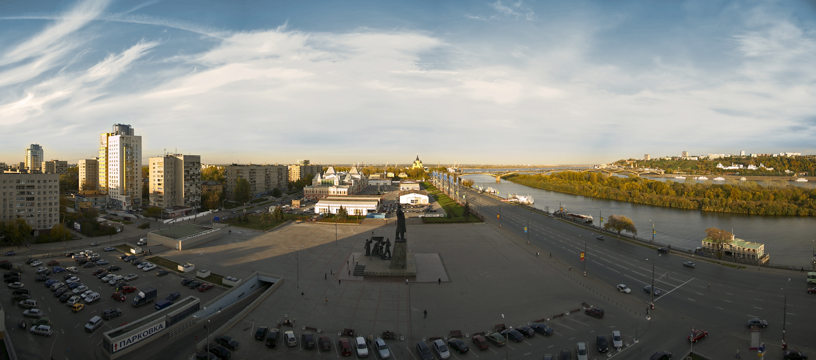 Panorama of Nizhny Novgorod as seen from the Tsentralnaya Hotel on the left bank of the Oka River. Lenin Square is in the foreground, with the Main Building of Nizhny Novgorod Fair and Alexander Nevsky Cathedral further beyond. On the right, one can see Grebnevskie Peski Island, Kanavino Bridge, and, further to the right, Nizhny Novgorod's Upper City.